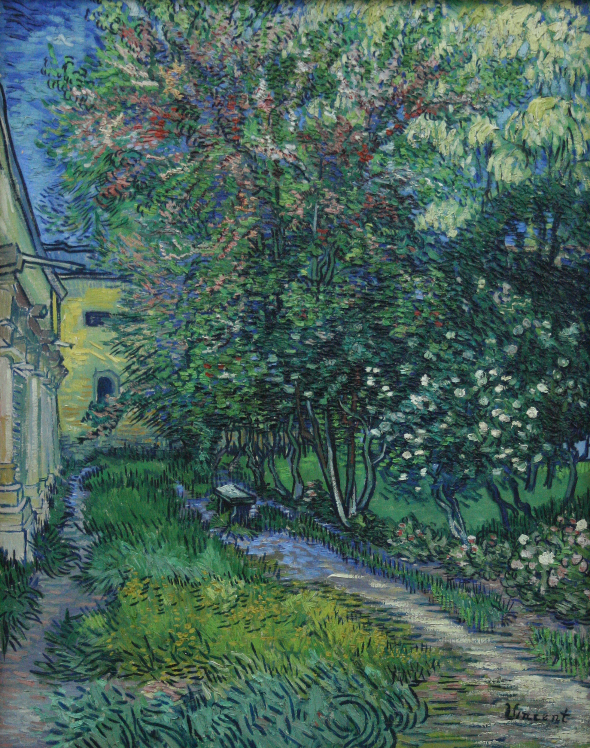 The garden at the asylum at Saint-Rémy; nl: De tuin van de inrichting in Saint-Rémy